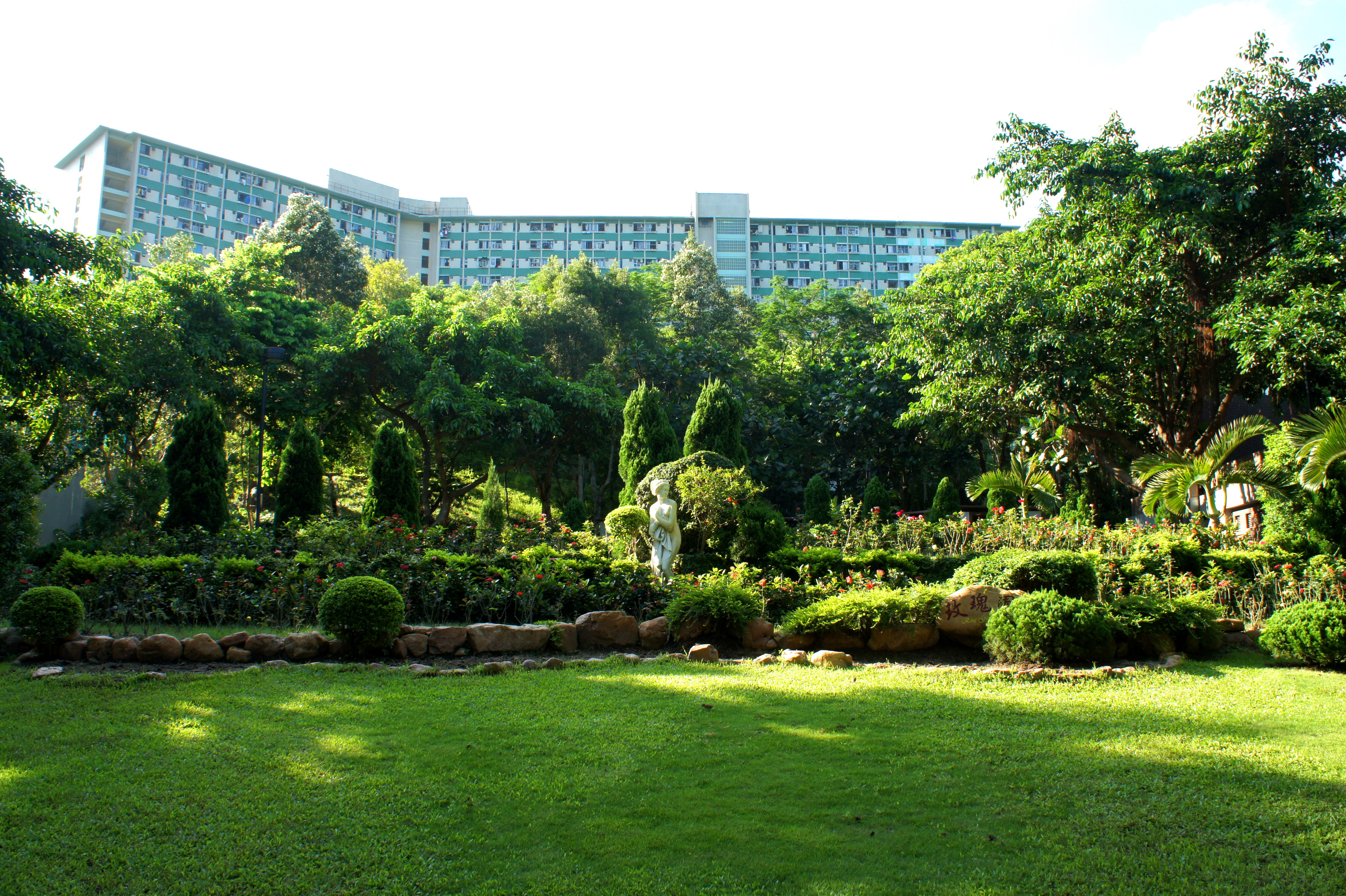 The Rose Garden in Shing Mun Valley Park, Tsuen Wan, Hong Kong.